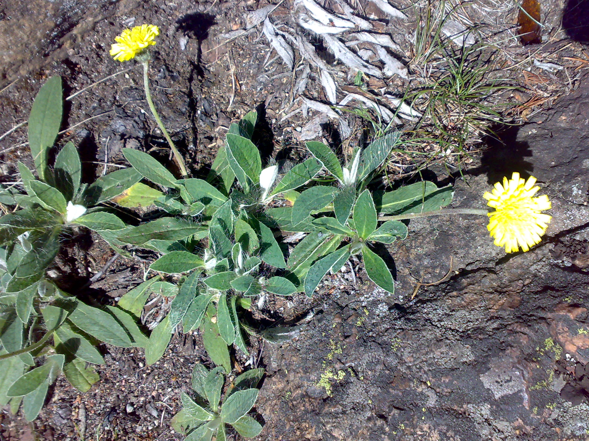 Pilocella peleterina Hurum, Norway